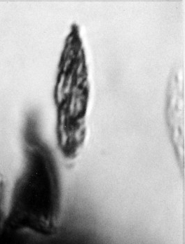 Photo and drawing of Dinenymphites spiris n. gen., n. sp. N = nucleus, A = axostyle, Bar = 13 μm.